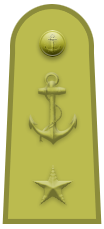 insignia for the shoulders of the rank of Rear Admiral (Rear Admiral Lower Half / Commodore) of the Italian Navy